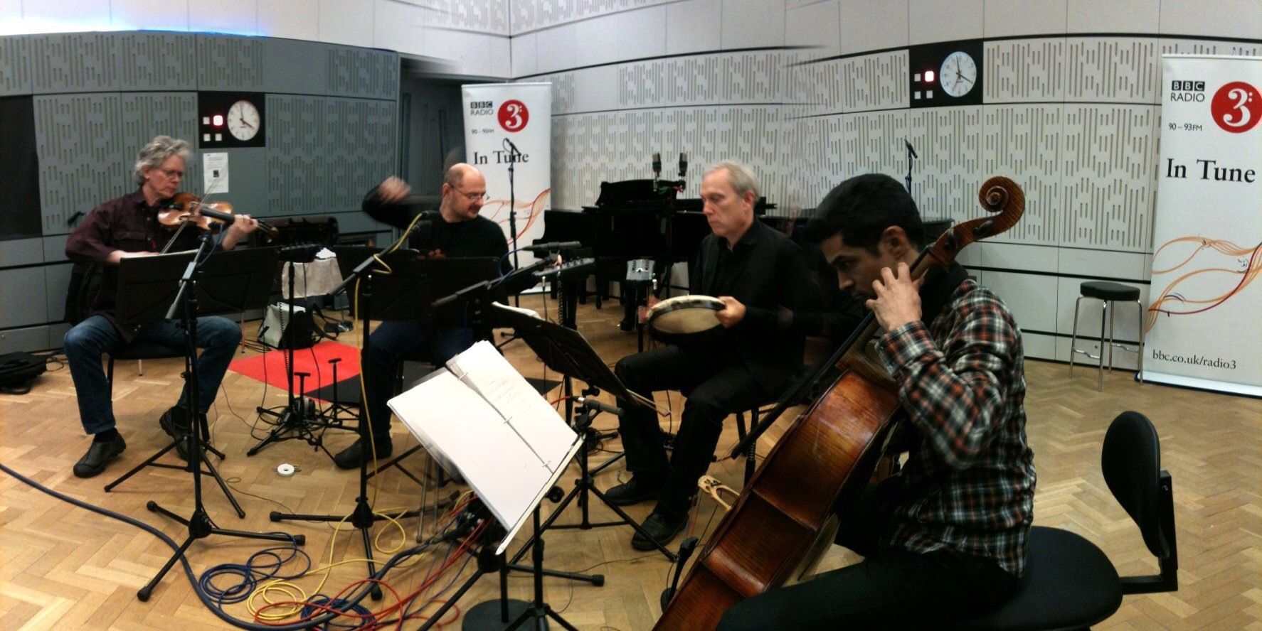 Kronos Quartet at "In Tune", BBC Radio 3 (in studio 80A, Broadcasting House, London/UK; see also)